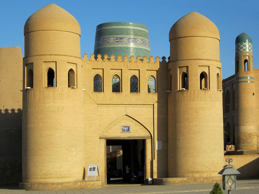 The West Gate to the walled Central Asian city of Khiva, Uzbekistan.